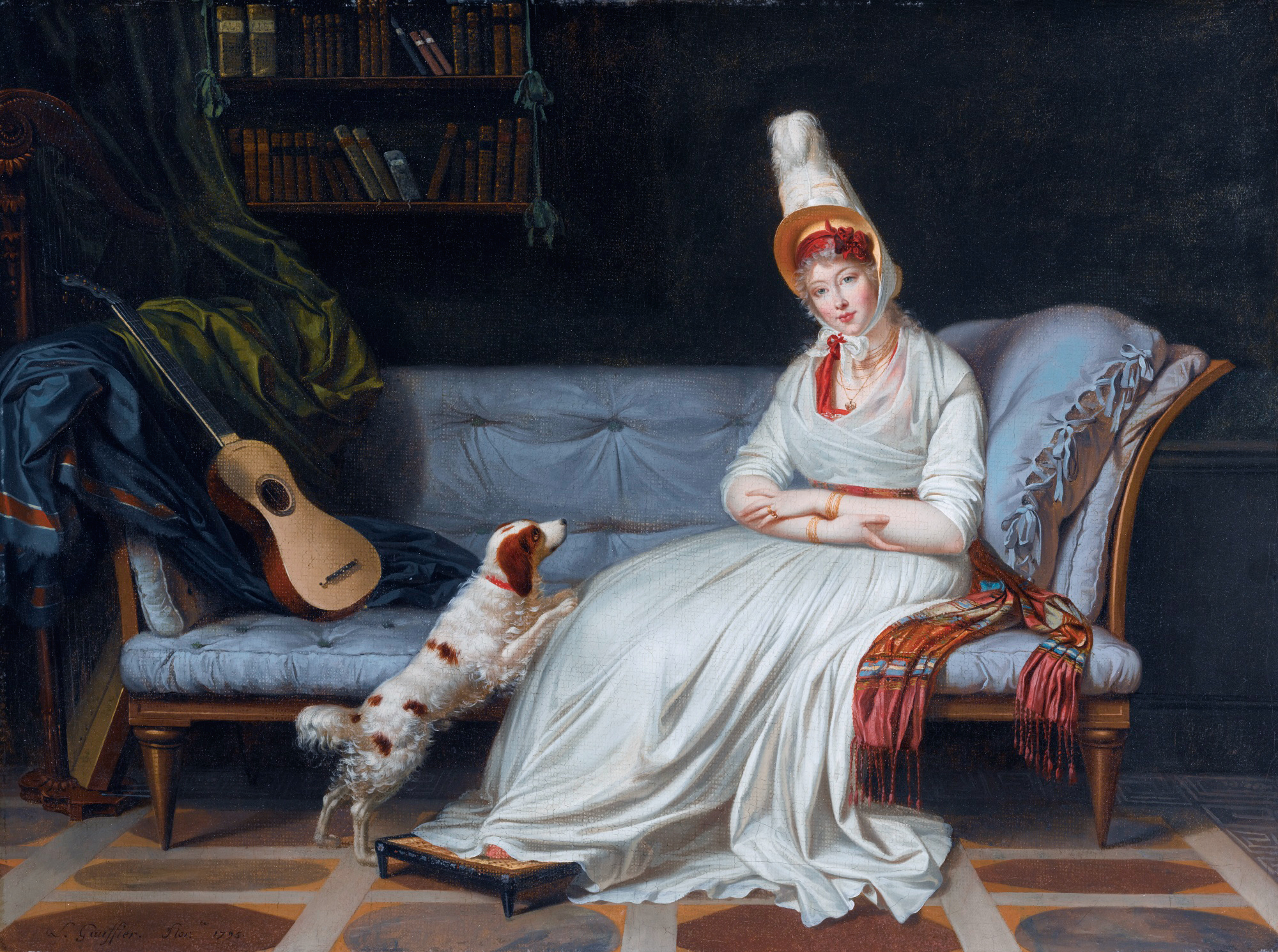 Portrait of Elizabeth, Lady Webster, later Lady Holland oil on canvas 51 by 67.6 cm. signed b.l.: L. Gauffier. Flor. ce 1795